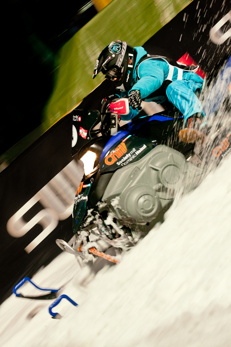 Snow Mobile Race